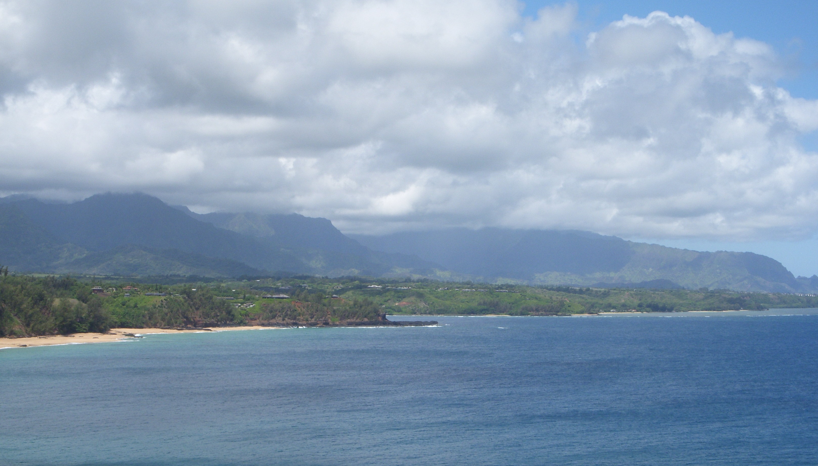 A photo of Princeville, Kaua'i, Hawai'i taken from Kilauea Point National Wildlife Refuge.